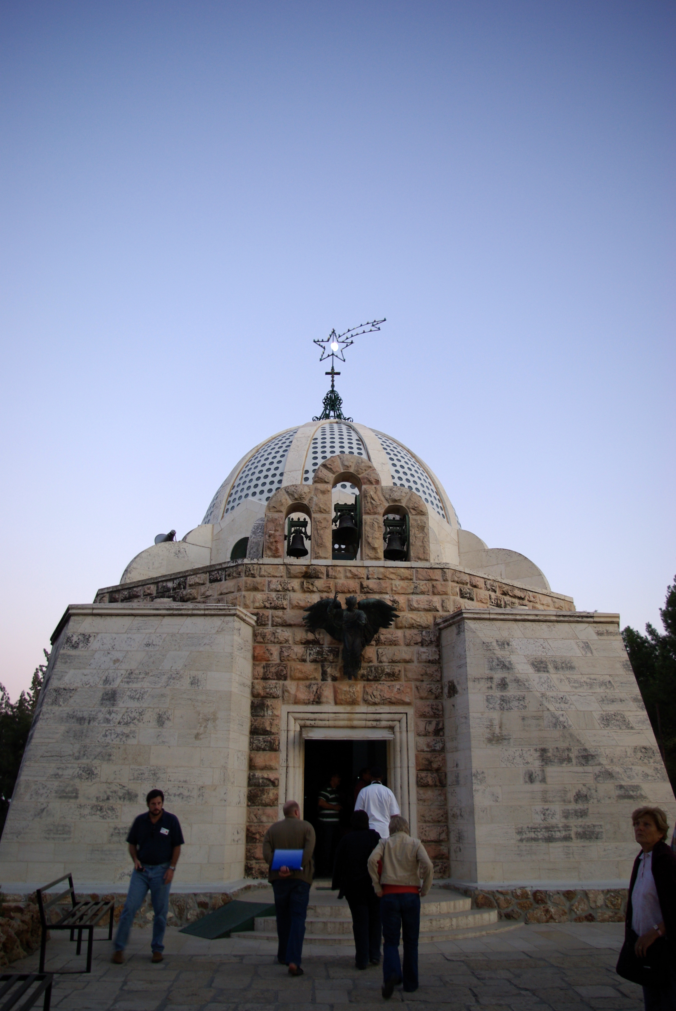 Bethlehem, Chapell on the shepherds fields